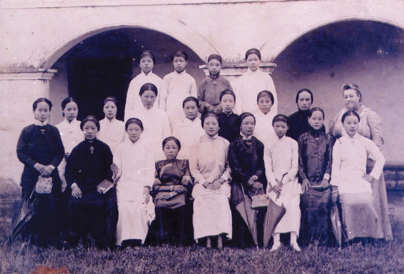 Margaret Barnett (Ban Chin-chu) and her Formosan students